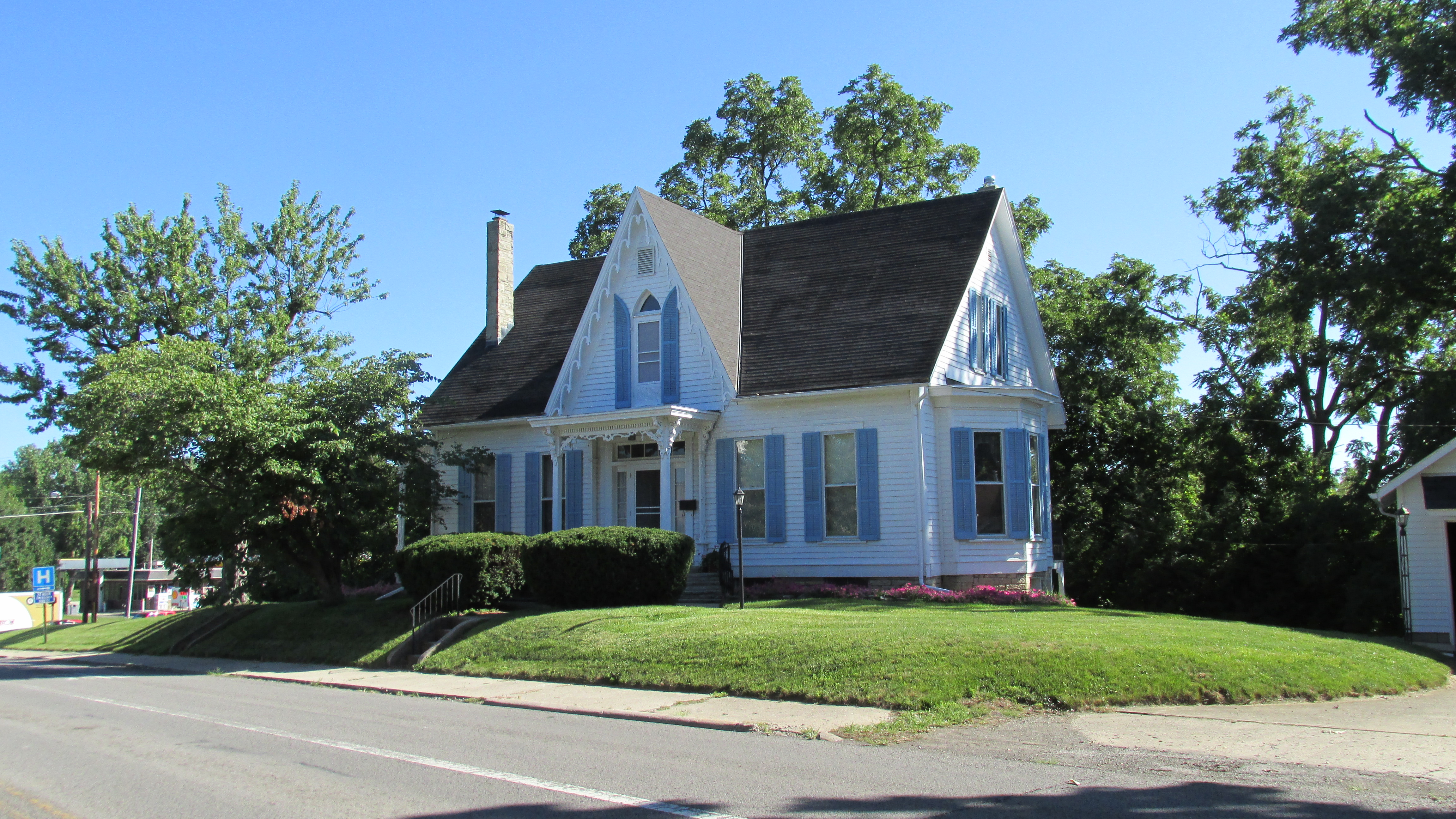 Robinson-Pavey House located in Washington Court House, Ohio.